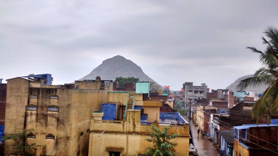 our native 2015 rainy season